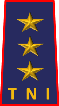 Air Marshal rank insignia that used on daily uniforms of Indonesian Air Force (holder of command)